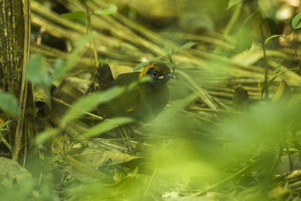 This is a very difficult bird to photograph as it is a skulkier in the dark forest and is always hidden by the grass around him